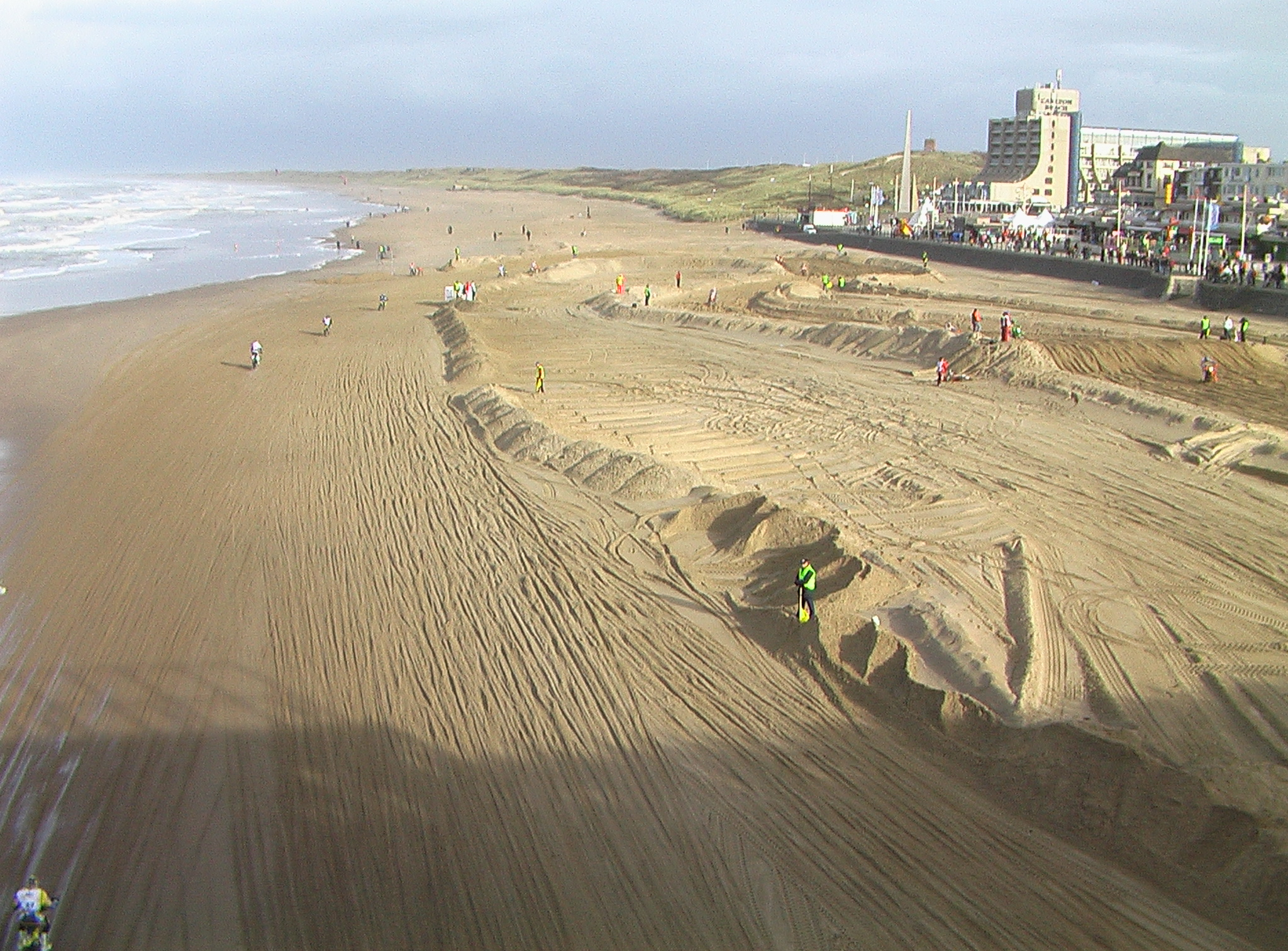 Beach race Scheveningen (Red Bull Knock Out)